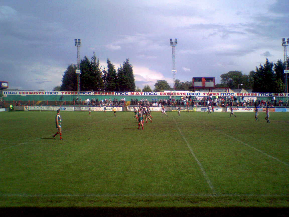 This photograph was taken by me at a rugby league match between Keighley Cougars against Featherstone Rovers in 2007. I release it under the GFDL lincensing laws.